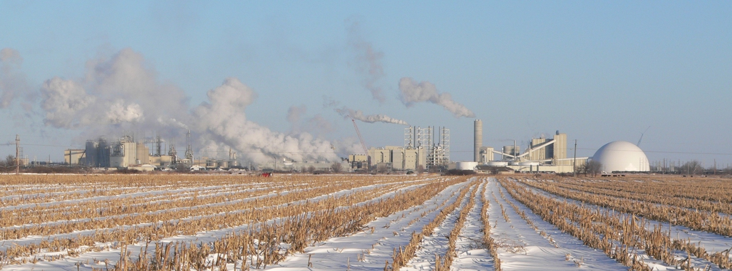 Archer Daniels Midland (ADM) corn-processing plant near Columbus, Nebraska; seen from the west.